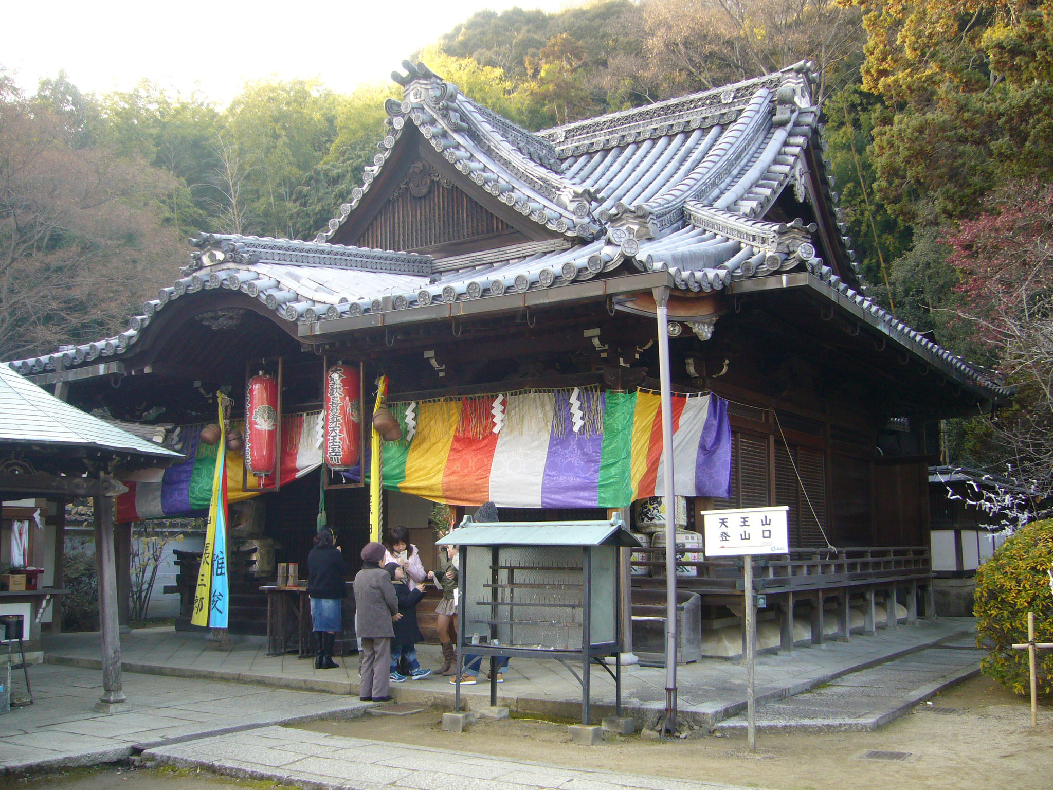 Yamazaki Shoten, a Buddhist temple in Oyamazaki, Kyoto prefecture, Japan